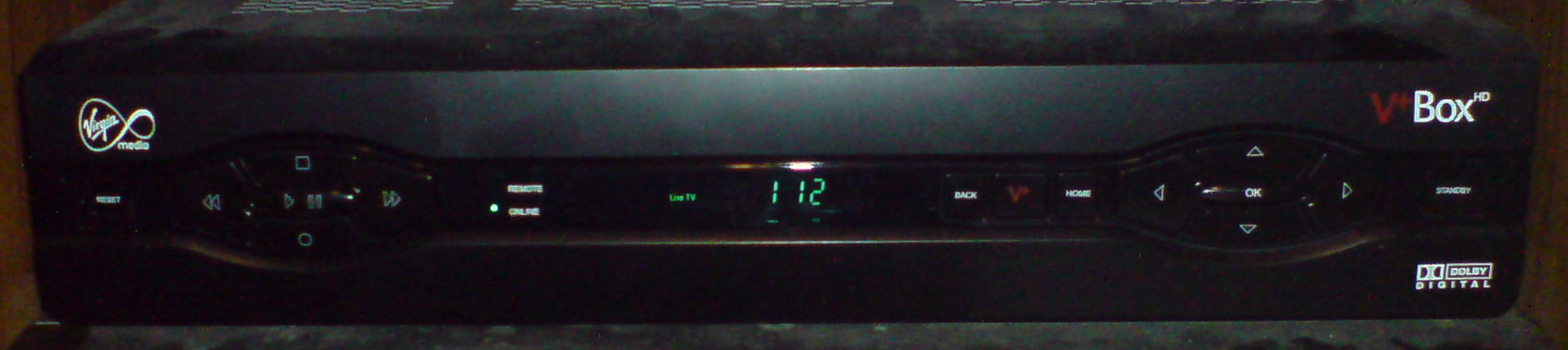 Front view of Virgin Media V+ PVR